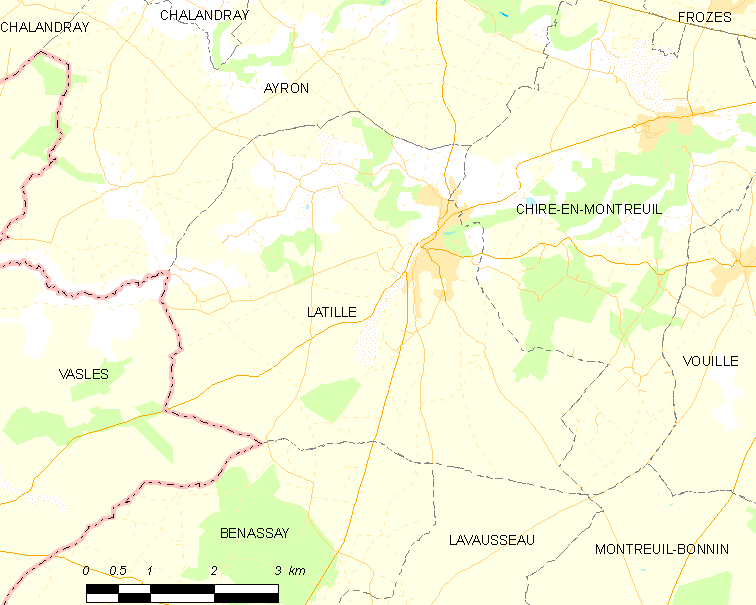 Map of French municipality Latillé